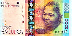 2014: new 2.000 CVE bank note with Cesária Évora (front), preview